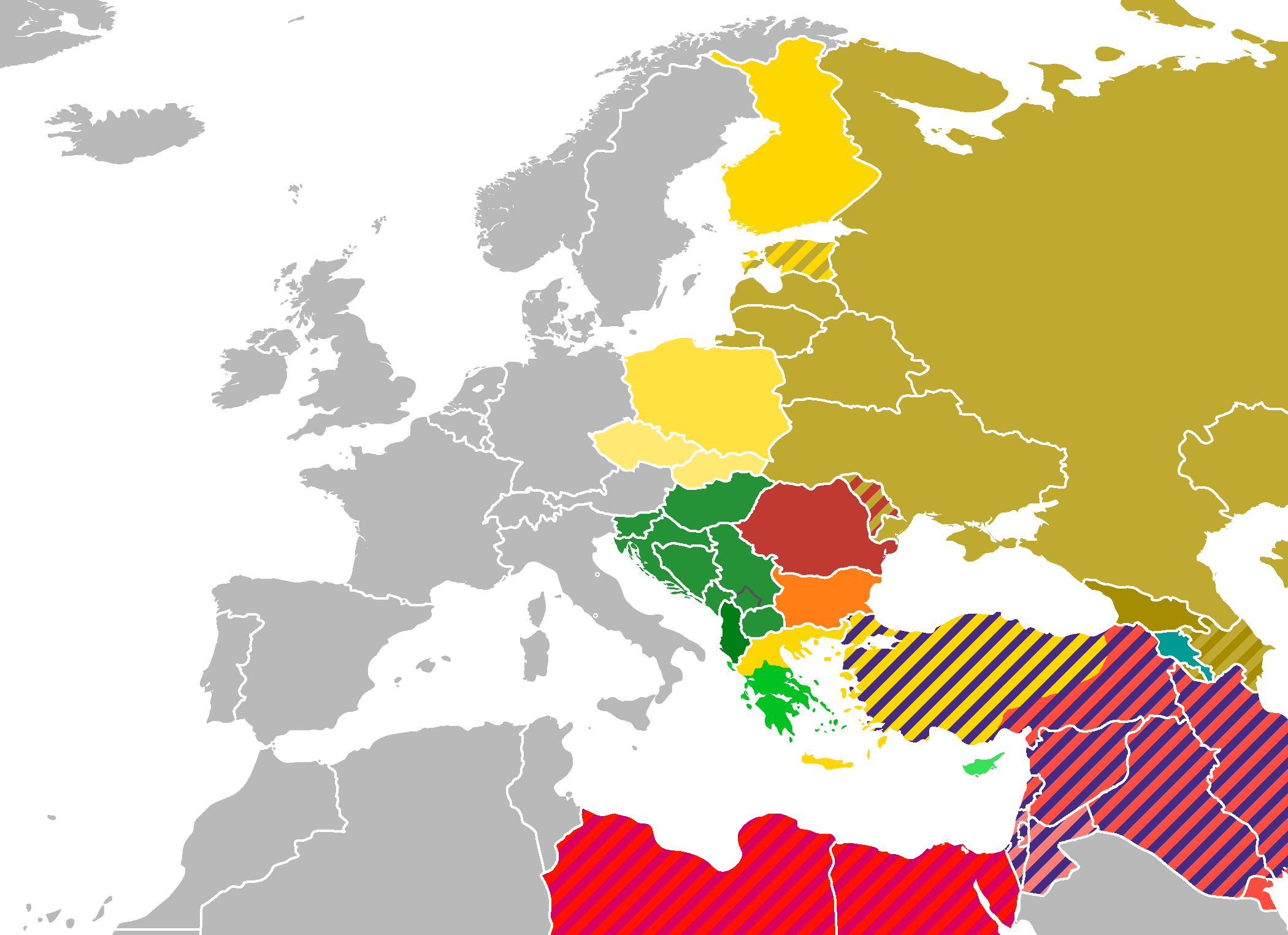 Map of the churches in the Orthodox Communion in Europe and parts of the Middle East. Eastern Orthodox Churches in Full Communion Orthodox Church of Albania Orthodox Church of Cyprus Orthodox Church of Czech lands and Slovakia Orthodox Church of Greece Orthodox Church of Poland Patriarchate of Alexandria Patriarchate of Antioch Patriarchate of Bulgaria Patriarchate of Constantinople Patriarchate of Georgia Patriarchate of Jerusalem Patriarchate of Romania Patriarchate of Russia Patriarchate of Serbia Oriental Orthodox Churches in Full Communion Armenian Apostolic Church Coptic Orthodox Church of Alexandria Syriac Orthodox Church of Antioch